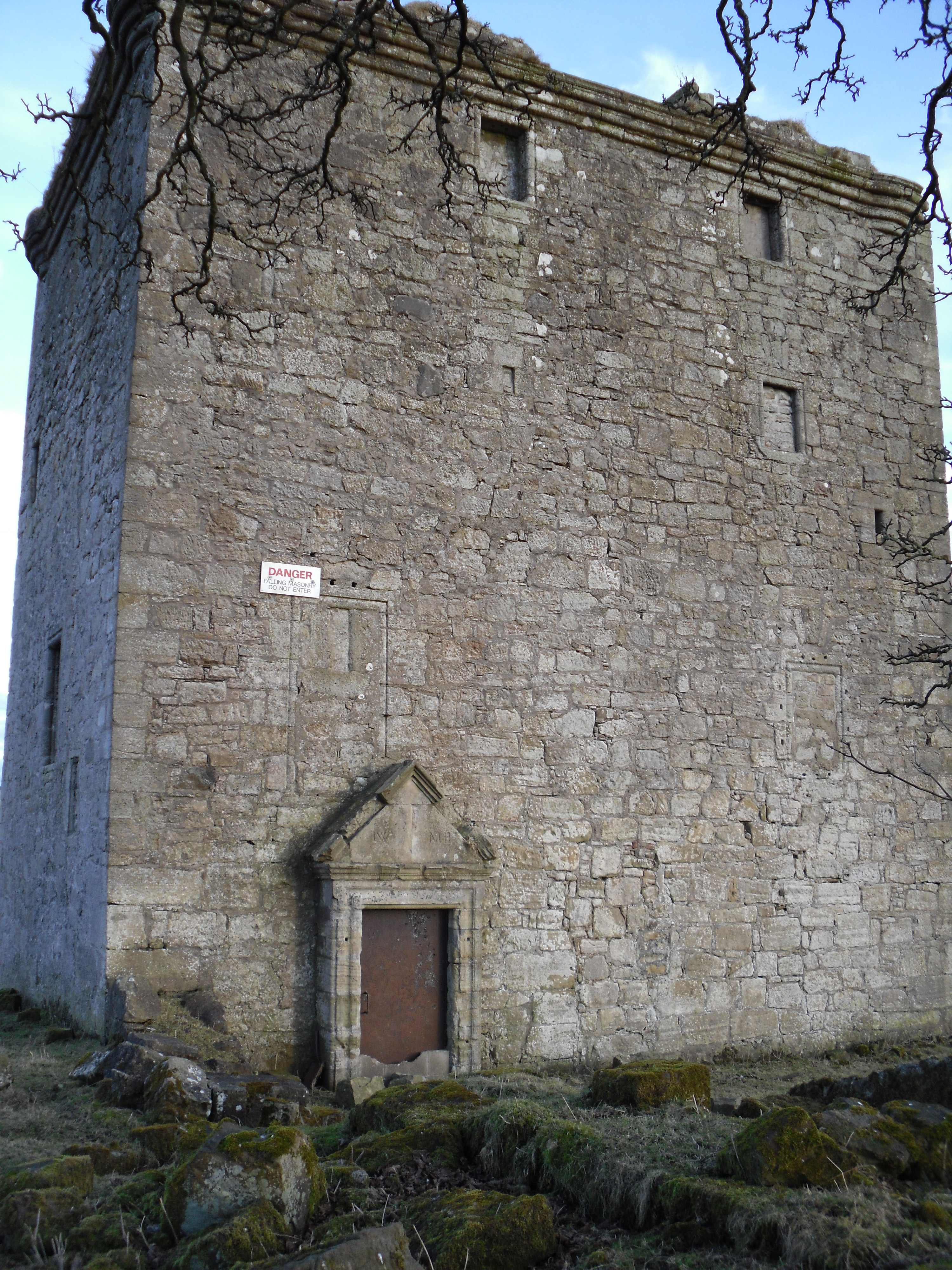 Barr Caslte, Lochwinnoch, Renefrewshire, Scotland